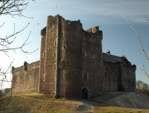 Doune Castle View of the gatehouse.